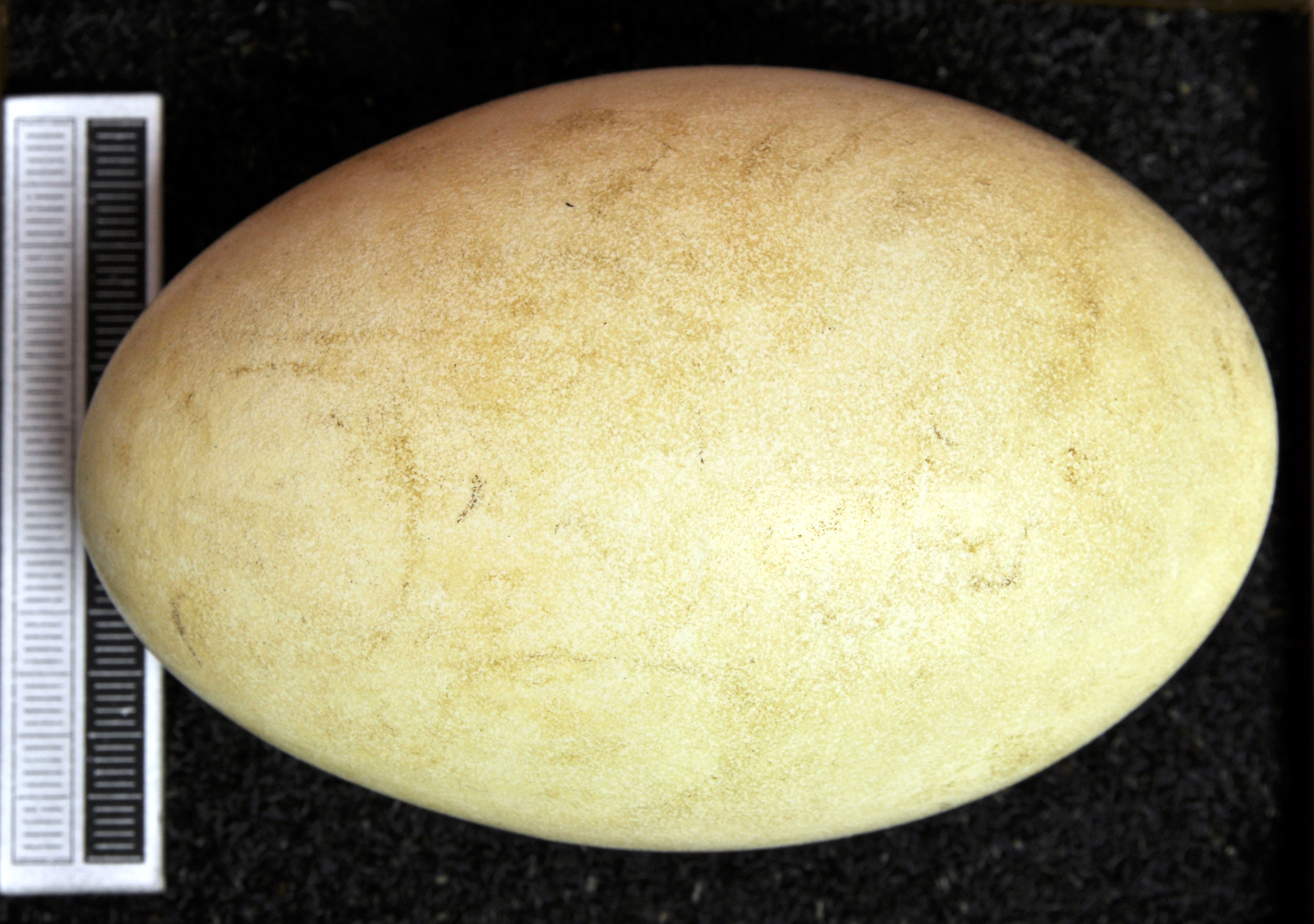 Greylag goose Anser anser , egg, Coll. Museum Wiesbaden